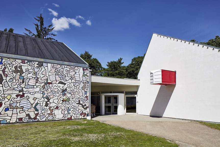 Museum Jorn, main entrance 2017 (Jean Dubuffet on the left, Andreas Slominski on the right)